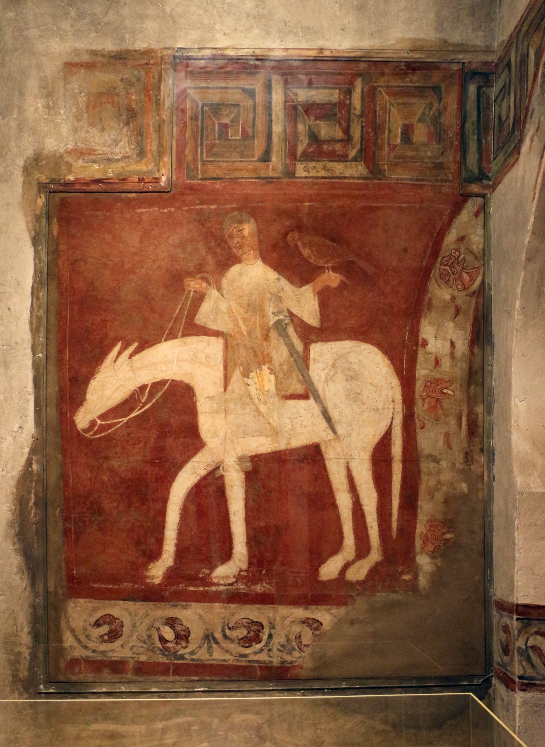 Spanish paintings in the Cincinnati Art Museum